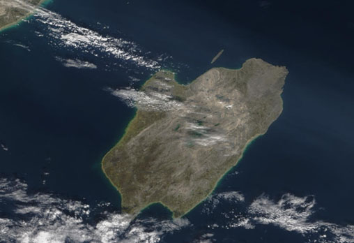 Terra MODIS satellite image of Coats Island, Canada.